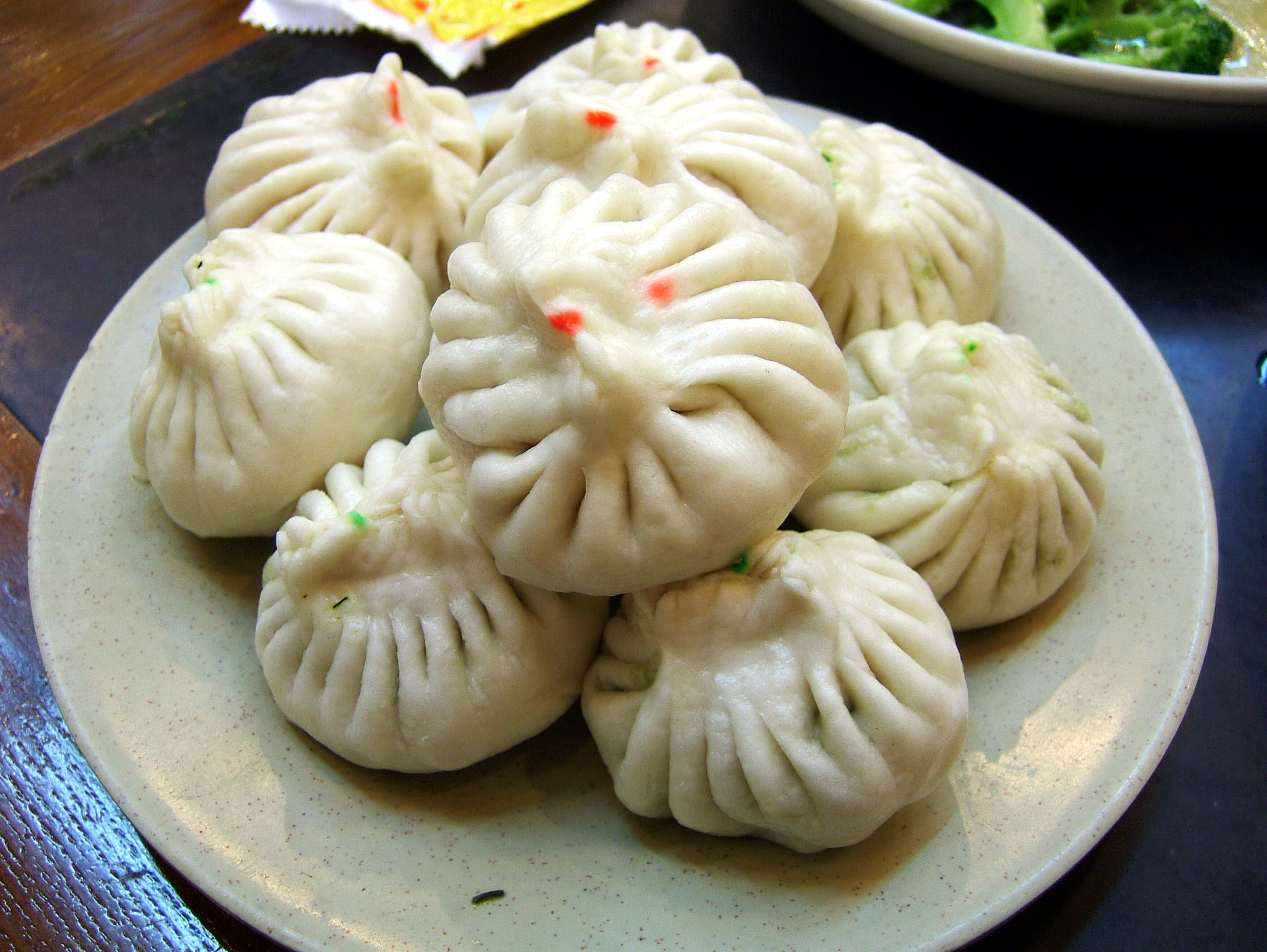 This dish's name is something like "Dog Doesn't Care". "Dog" is the name of the creator of the dish, the father called him Dog because he wanted him to be easy to take care of. He "Doesn't Care" because he worked so hard to make the dish, he never spent any time with his customers.